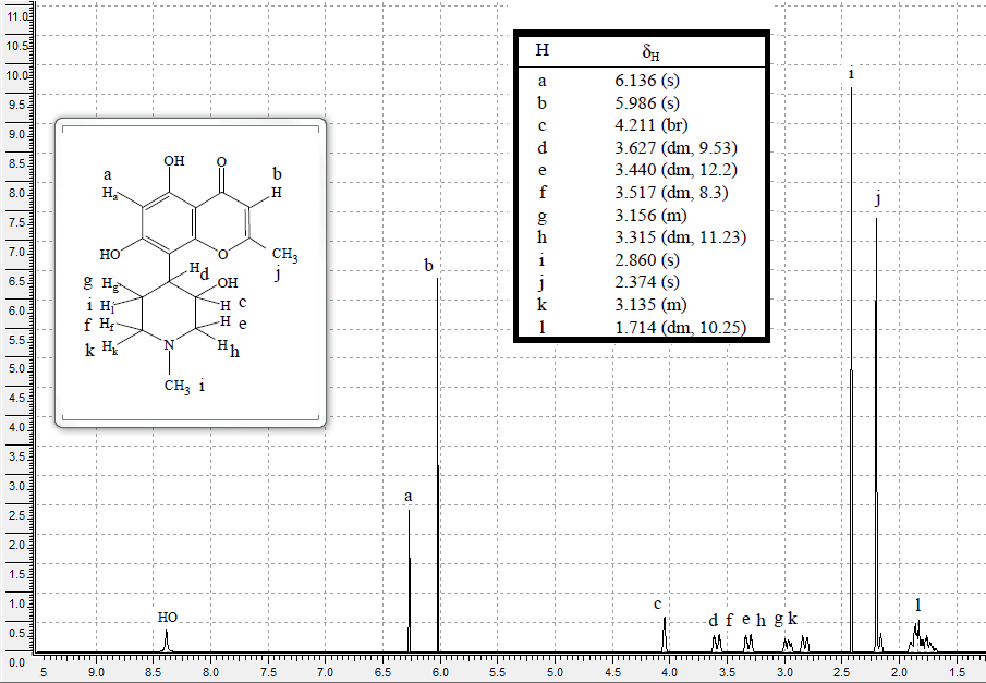 Rohitukine RMN H1 spectra